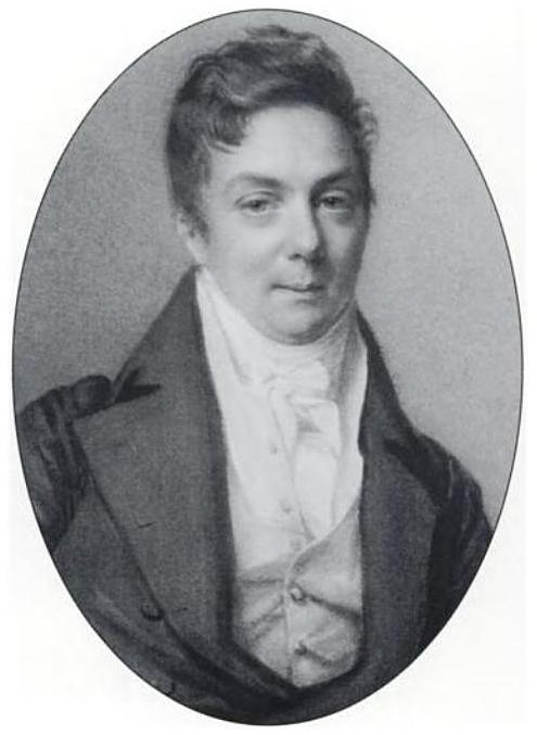 Henry Salt (1780-1827), English artist, traveler, diplomat, and Egyptologist.